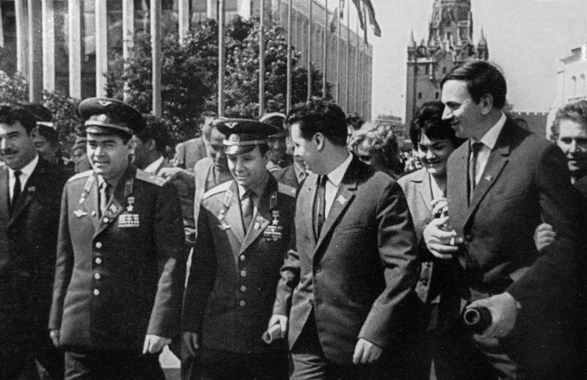 Cosmonauts Yuri Gagarin and Andriyan Nikolayev within a crowd